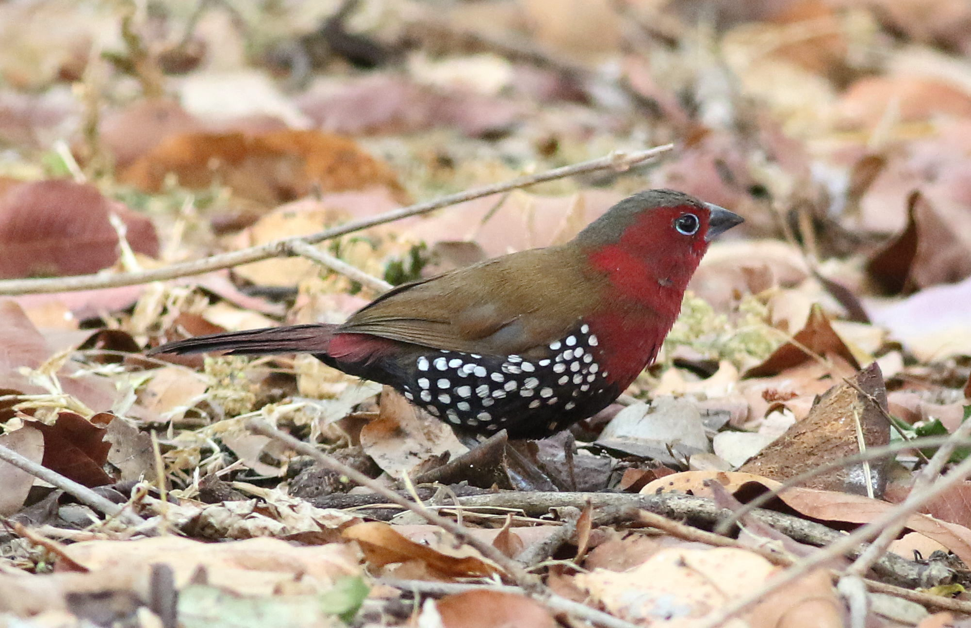 Red-throated twinspot, Hypargos niveoguttatus at Ewanrig Botanical Garden, Harare, Zimbabwe